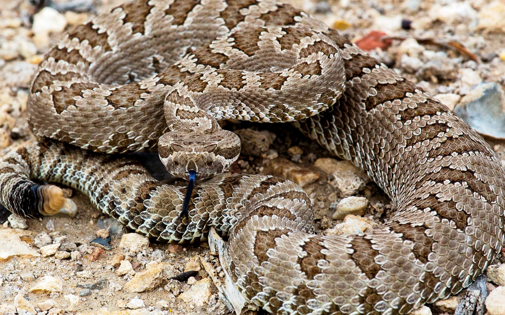 Rattlesnake 2015 BLM Photo Bob Wick